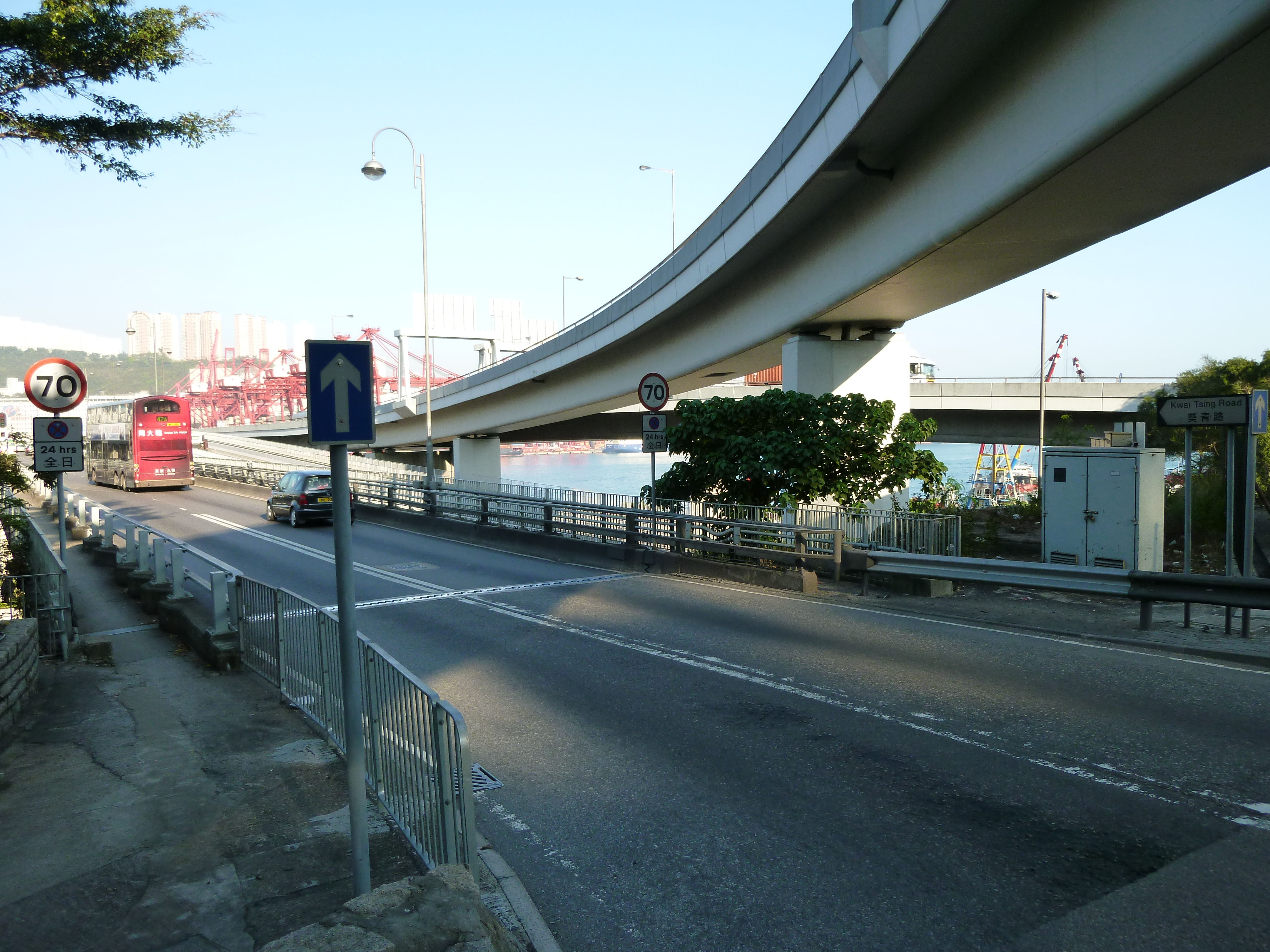 Kwai Tsing Road (Kwai Tsing District, Hong Kong)